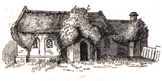 Illustration of the Friends Meeting House, Owstwick, taken from George Poulson’s The History and Antiquities of the Seigniory of Holderness in the East-Riding of the County of York (1841), Volume 2, P.103. Former house converted to meeting house.